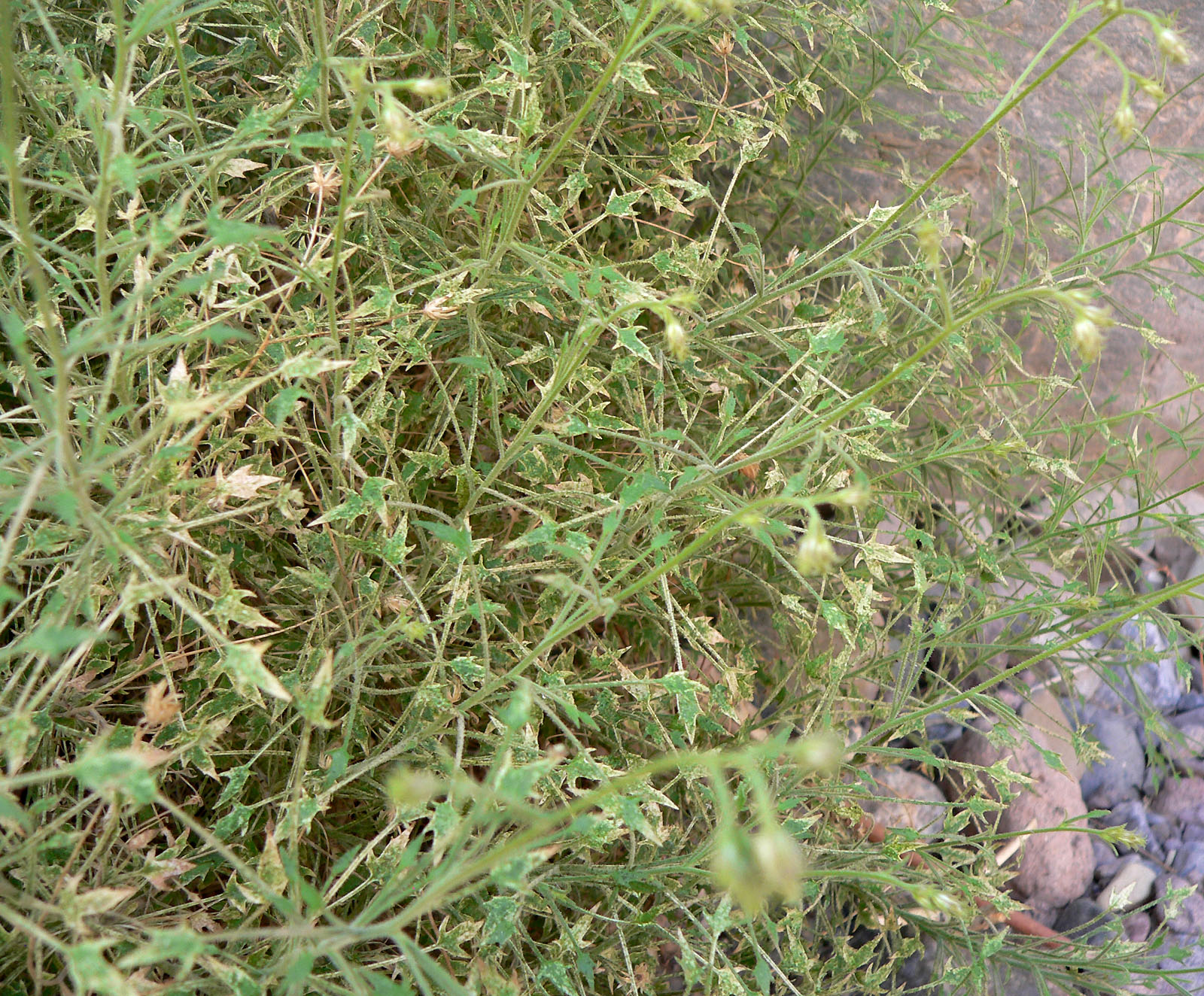 Pleurocoronis pluriseta in Titus Canyon, Death Valley, California